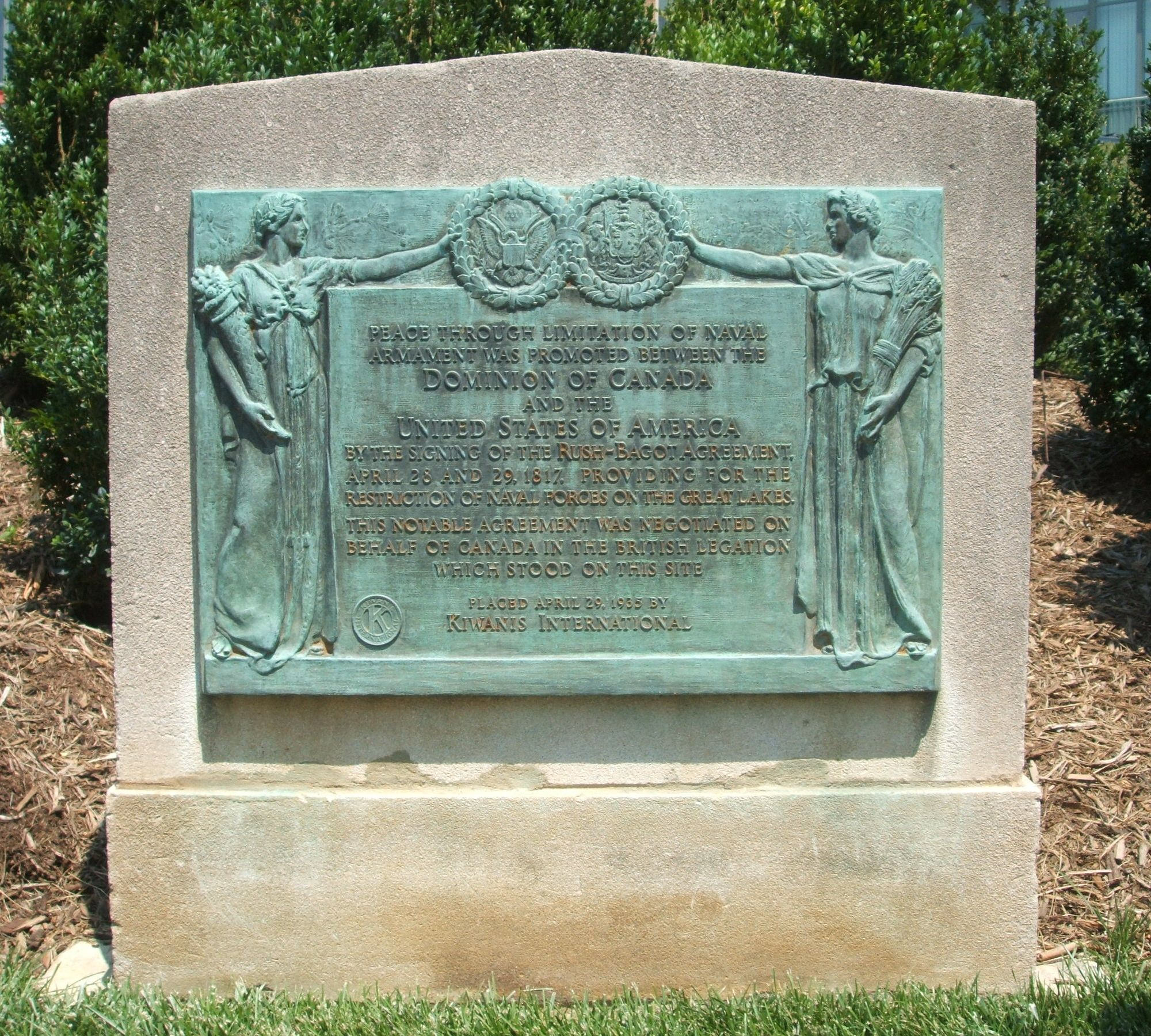 Historical marker for the Rush-Bagot Treaty at the "Columbia Residences" (formerly Columbia Hospital for Women) at 2425 L Street NW (near Pennsylvania Avenue and 25th Street), Washington, D.C. (38°54′13.7″N 77°3′8.5″W / 38.903806°N 77.052361°W). Transcription: Peace through limitation of naval armament was promoted between the Dominion of Canada and the United States of America by the signing of the Rush-Bagot Agreement, April 28 and 29, 1817, providing for the restriction of naval forces on the Great Lakes. This notable agreement was negotiated on behalf of Canada in the British Legation which stood on this site. Placed April 29, 1935 by Kiwanis International.